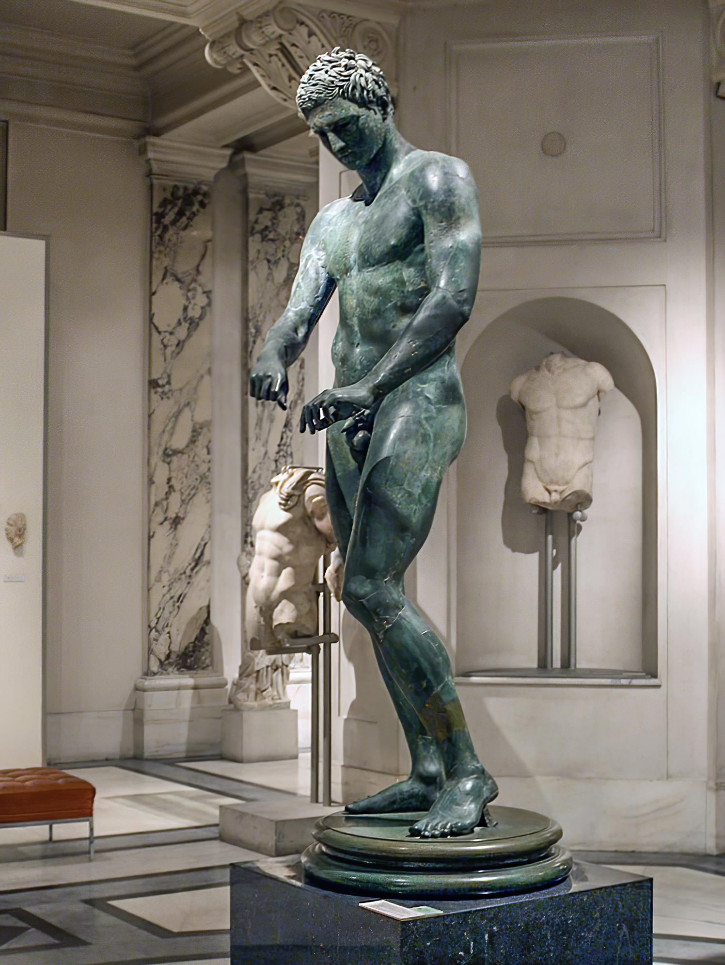 Bronze statue of an athlete from Ephesus cleaning his strigil 1st century CE copy of 4th century BCE Greek original. This is a derivative of a file uploaded by Wikimedia Commons contributor Manfred Werner. It has been cropped then enlarged with AI software, then shadows lightened, Clarity increased, sharpened and noise removed. The statue was originally photographed at the Ephesos Museum in Vienna, Austria.